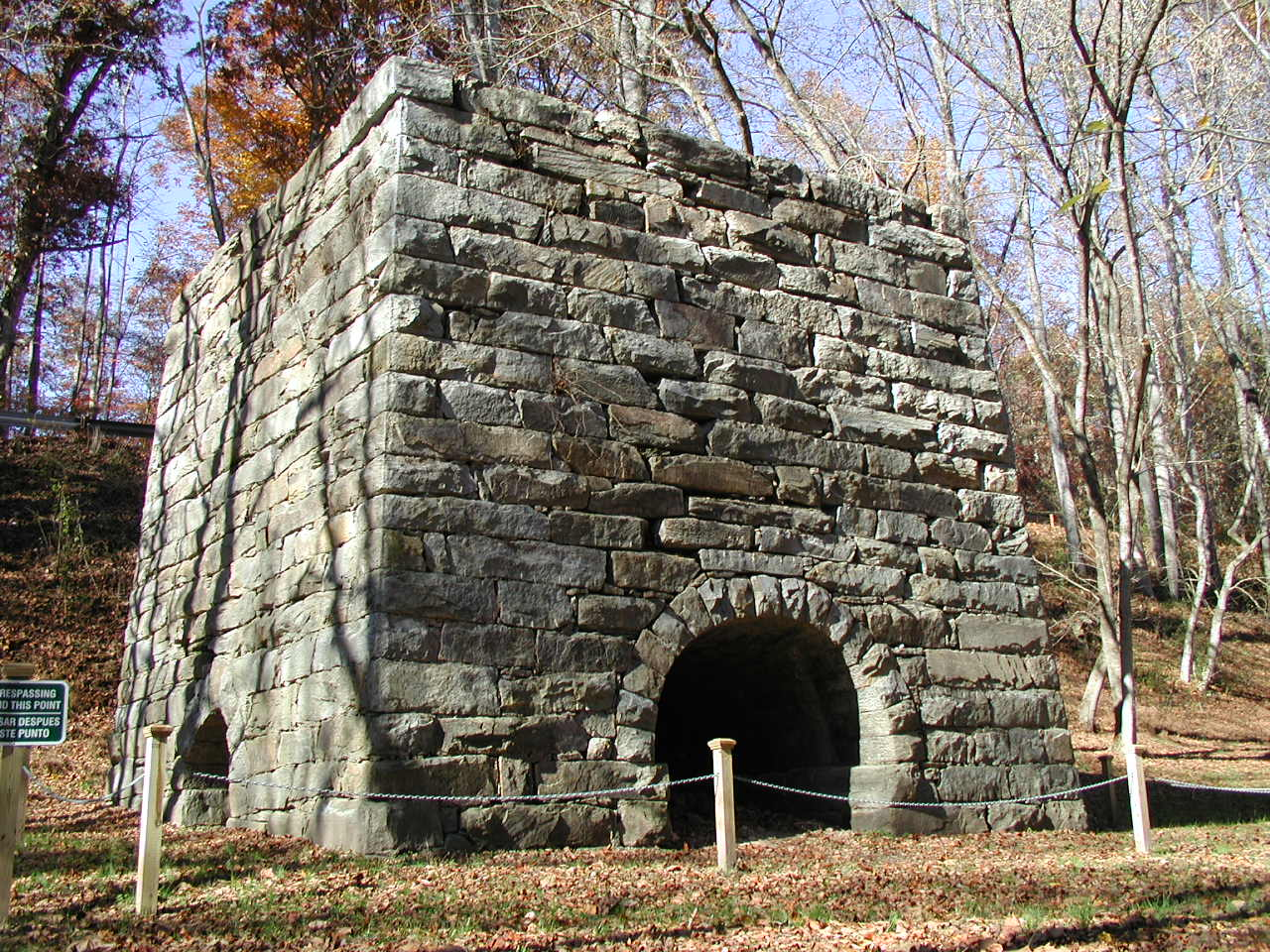 The Confederate foundry at Moratock Park, Danbury, North Carolina.